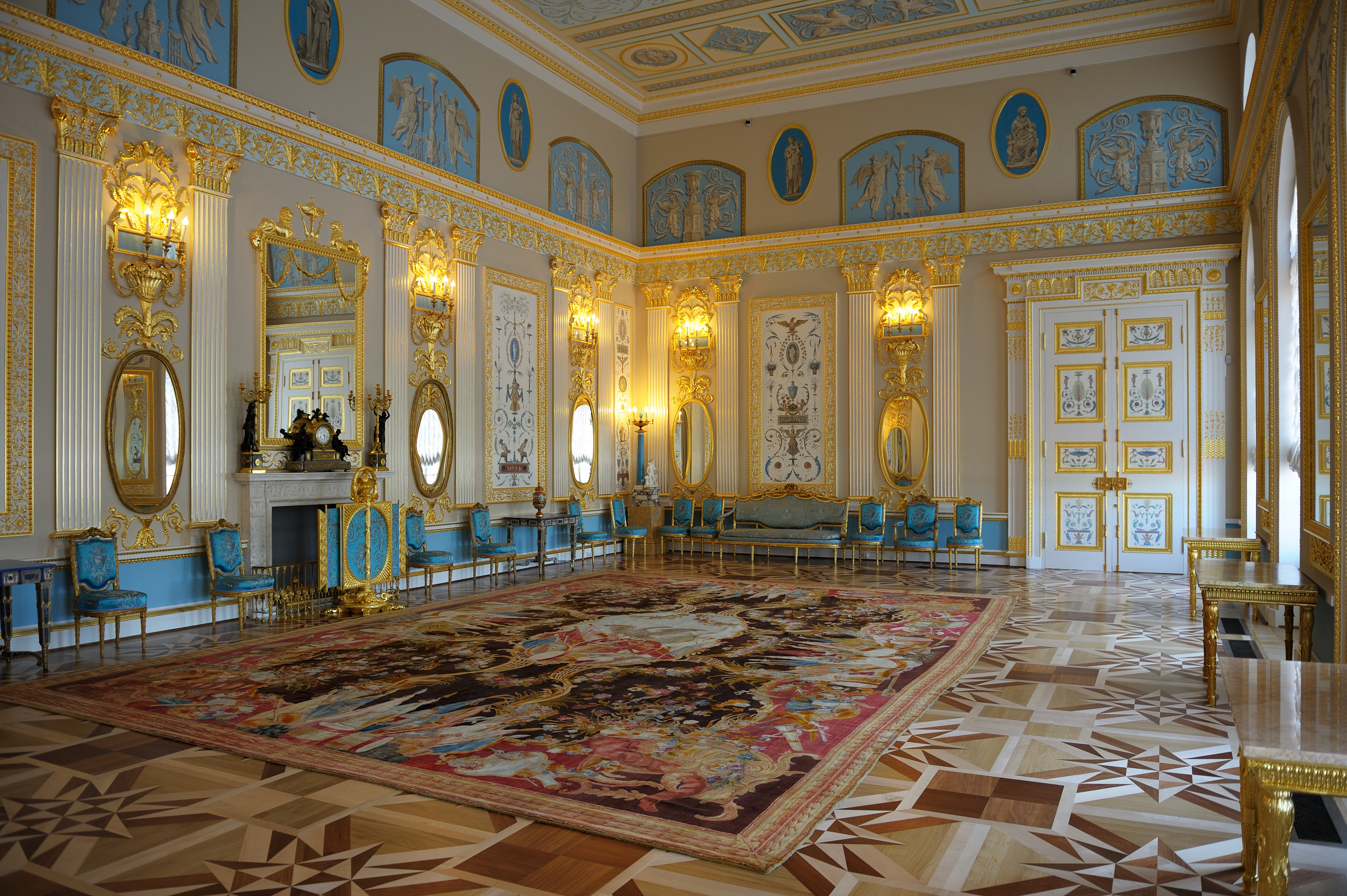 The Arabesque Room of the Catherine Palace in Tsarskoye Selo (Pushkin), Saint Petersburg, Rusia. The palace was built in 1717 under the direction of Johann Friedrich Braunstein, and was remodelled in 1752-1756 by Bartolomeo Francesco Rastrelli. The interior decoration was designed by Charles Cameron. The Arabesque Room was restored and opened to the public in 2010.